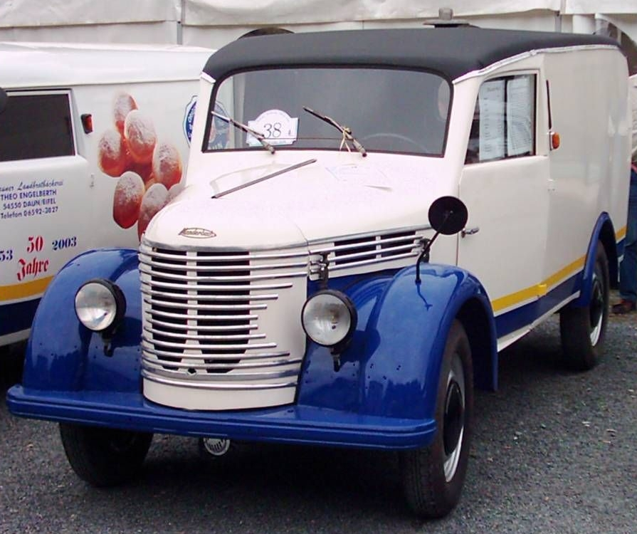 Manderbach Kastenwagen